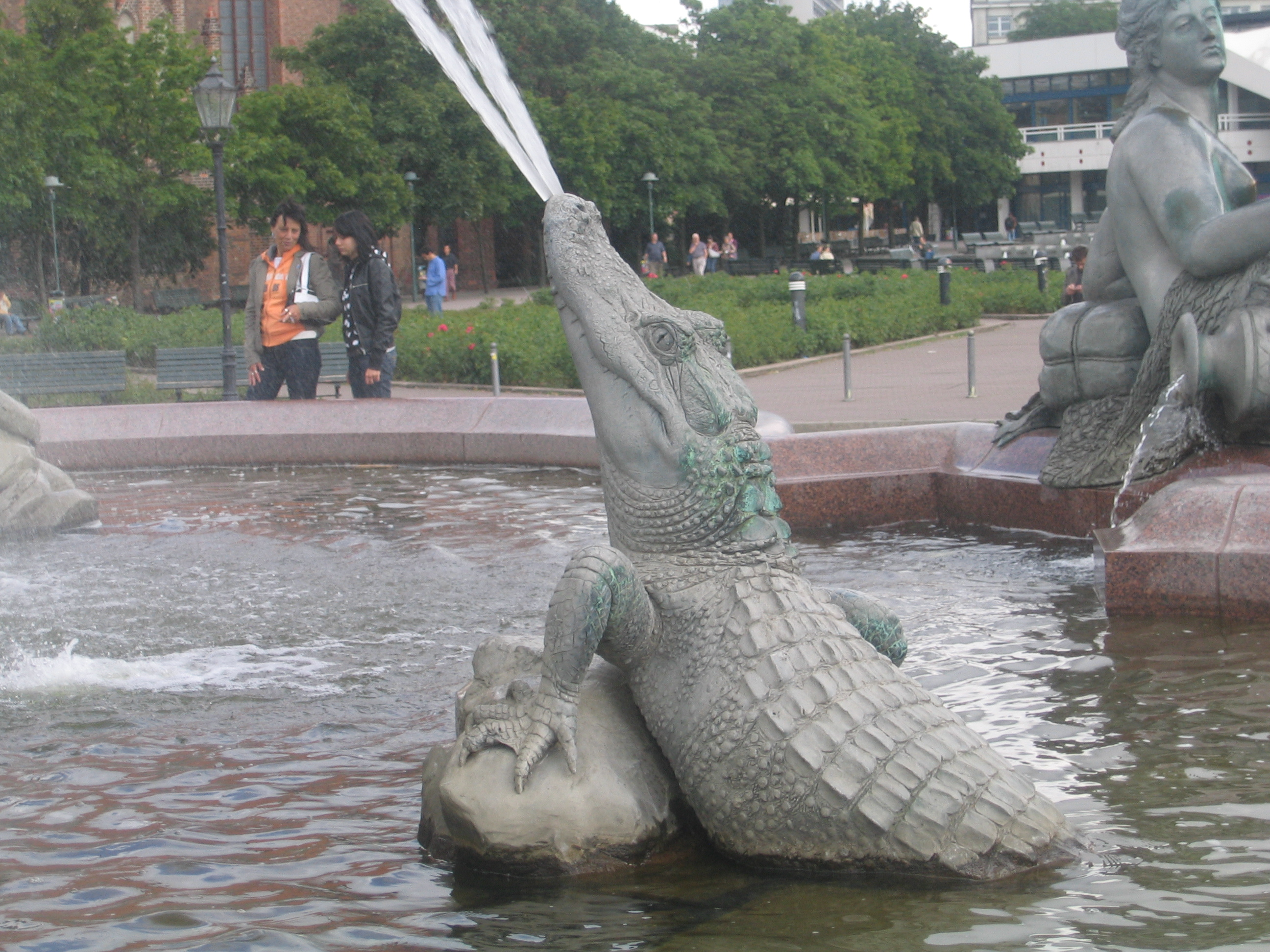 Neptune Fountain